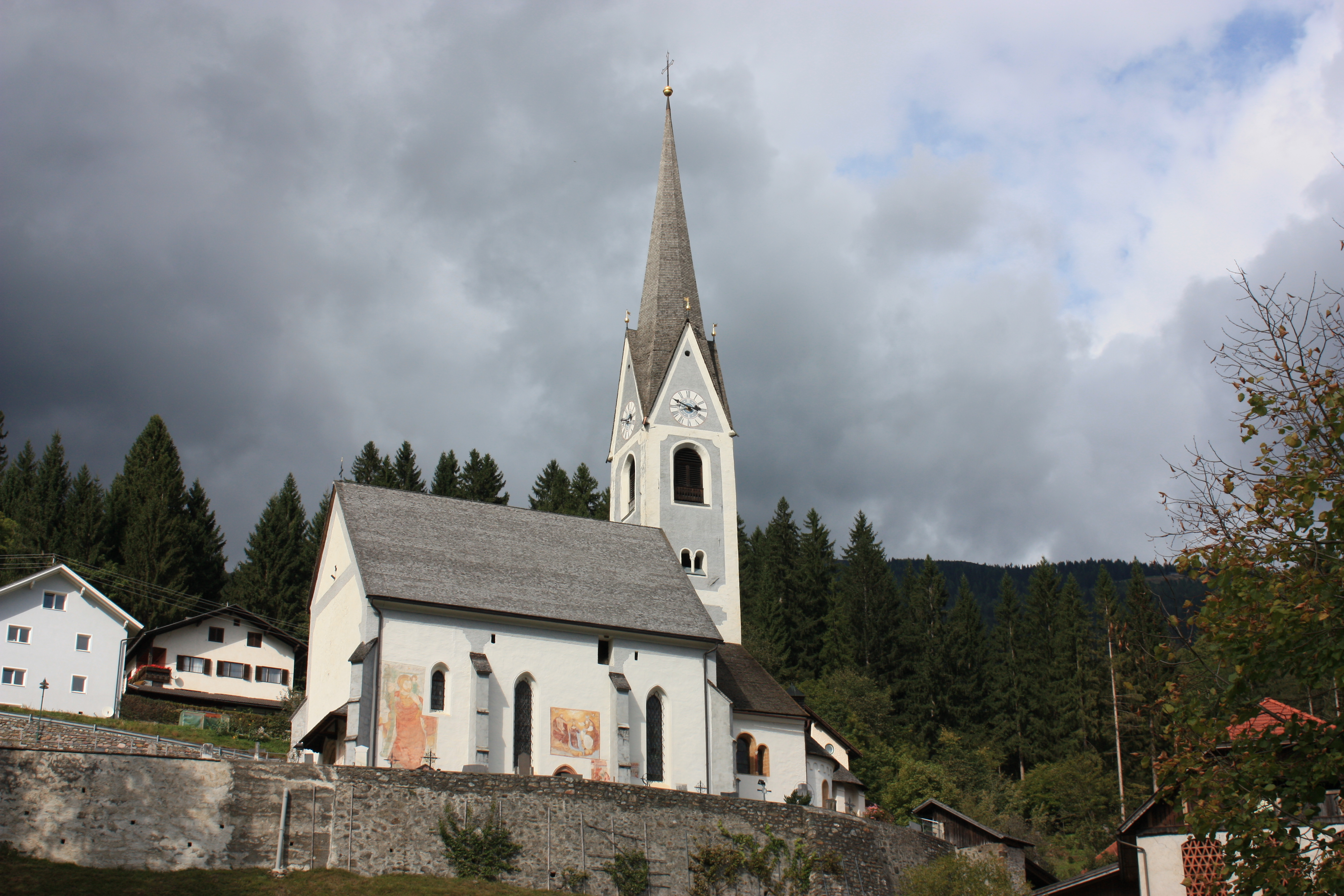 Parish church Locality: Berg im Drautal Community:Berg im Drautal